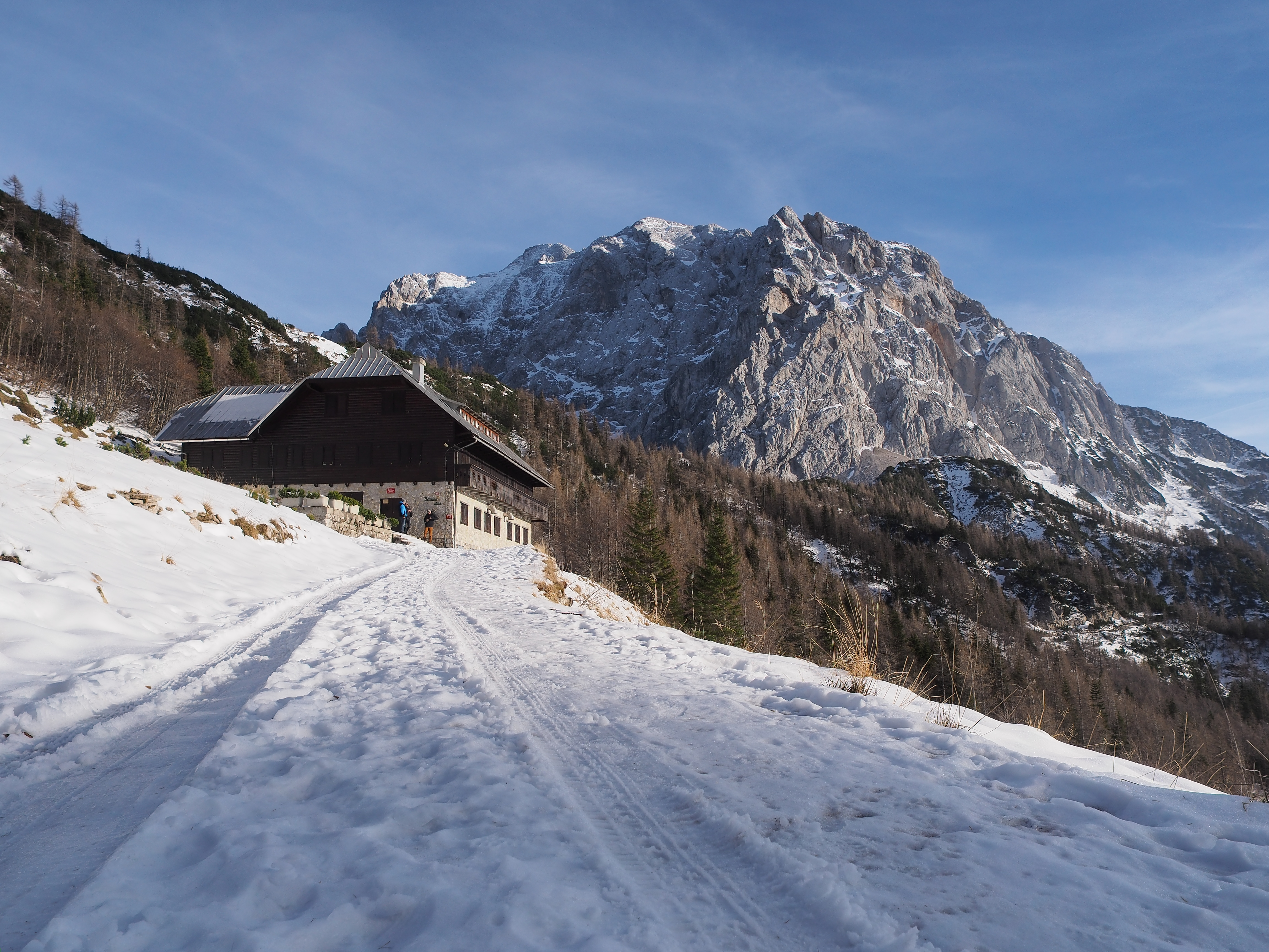 Tičar Lodge at Vršič - 1620 m (Vršič pass, Julian Alps, Slovenia).